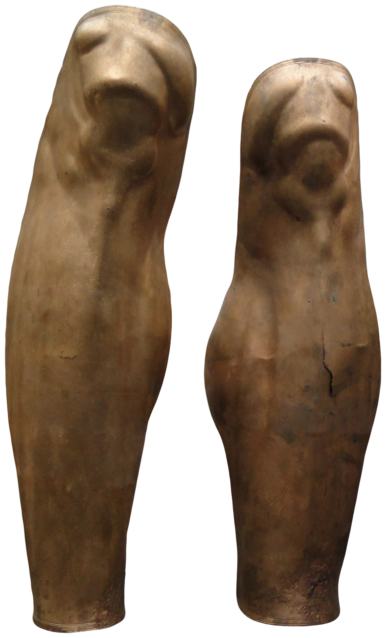 Greave from the tomb of Denda. The name of the warrior (Denda) is engraved on the left greave. From a Greek workshop in South Italy, 500–490 BC.